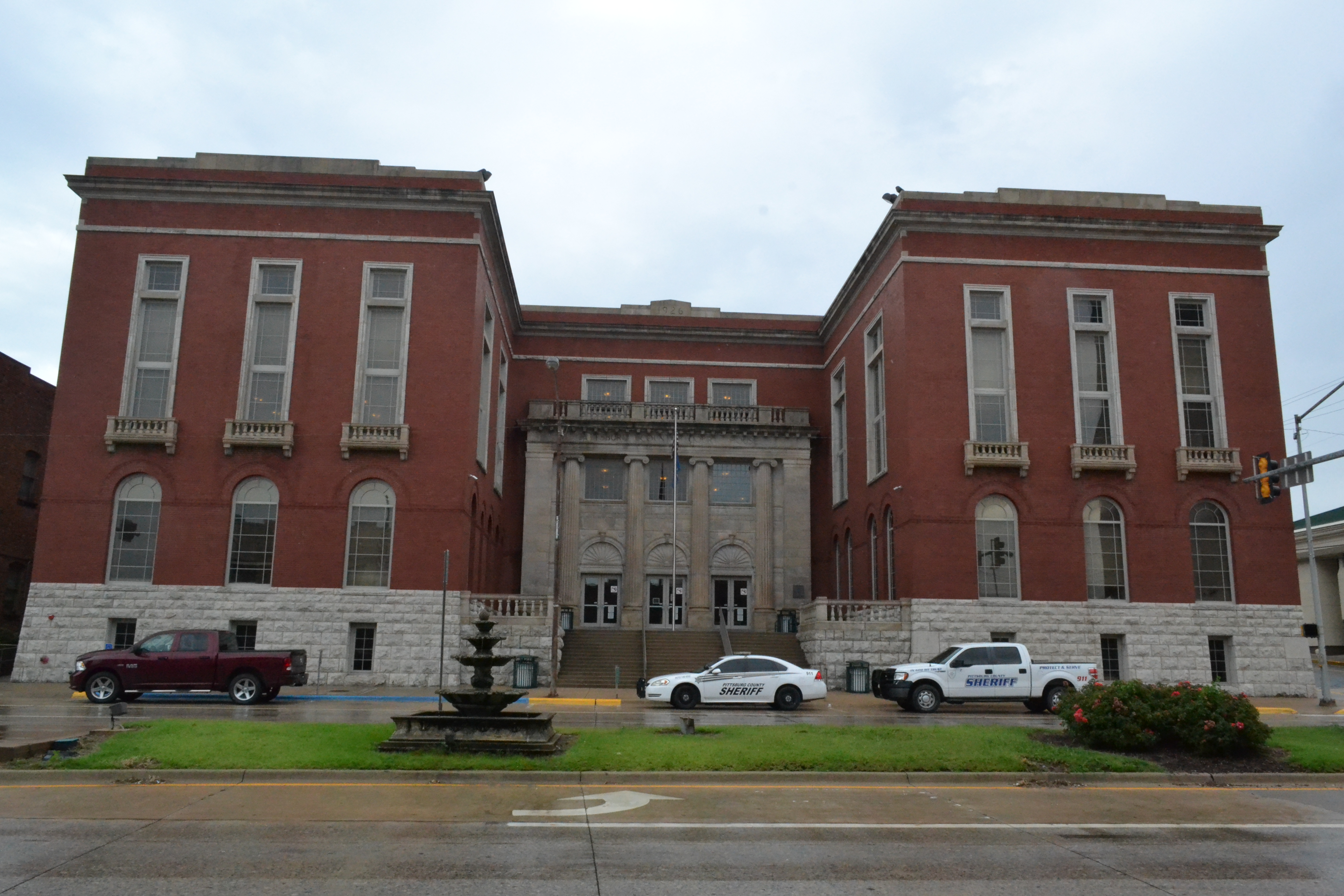 Pittsburg County Courthouse in McAlester, OK. Listed on the national Register of Historic Places.